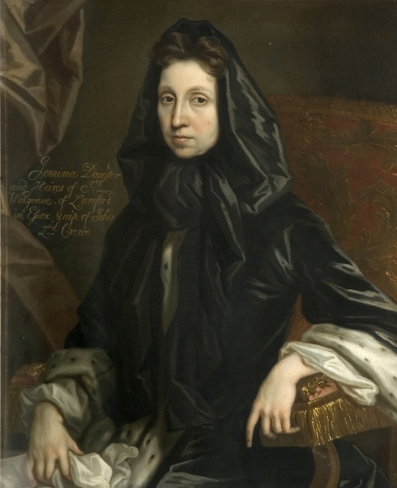 Portrait of Jemima Waldegrave